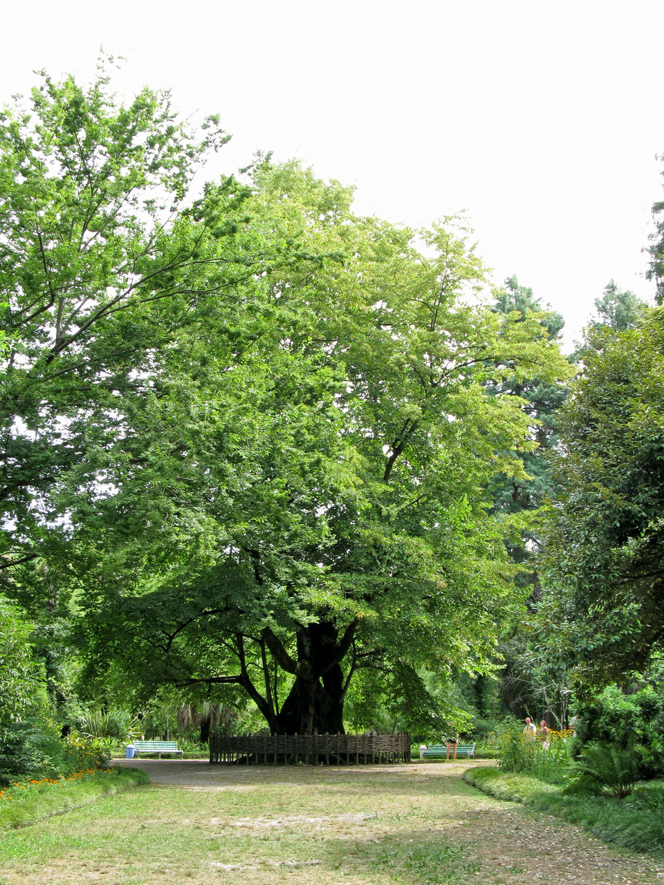 250-year-old linden in botanical garden. Sukhum